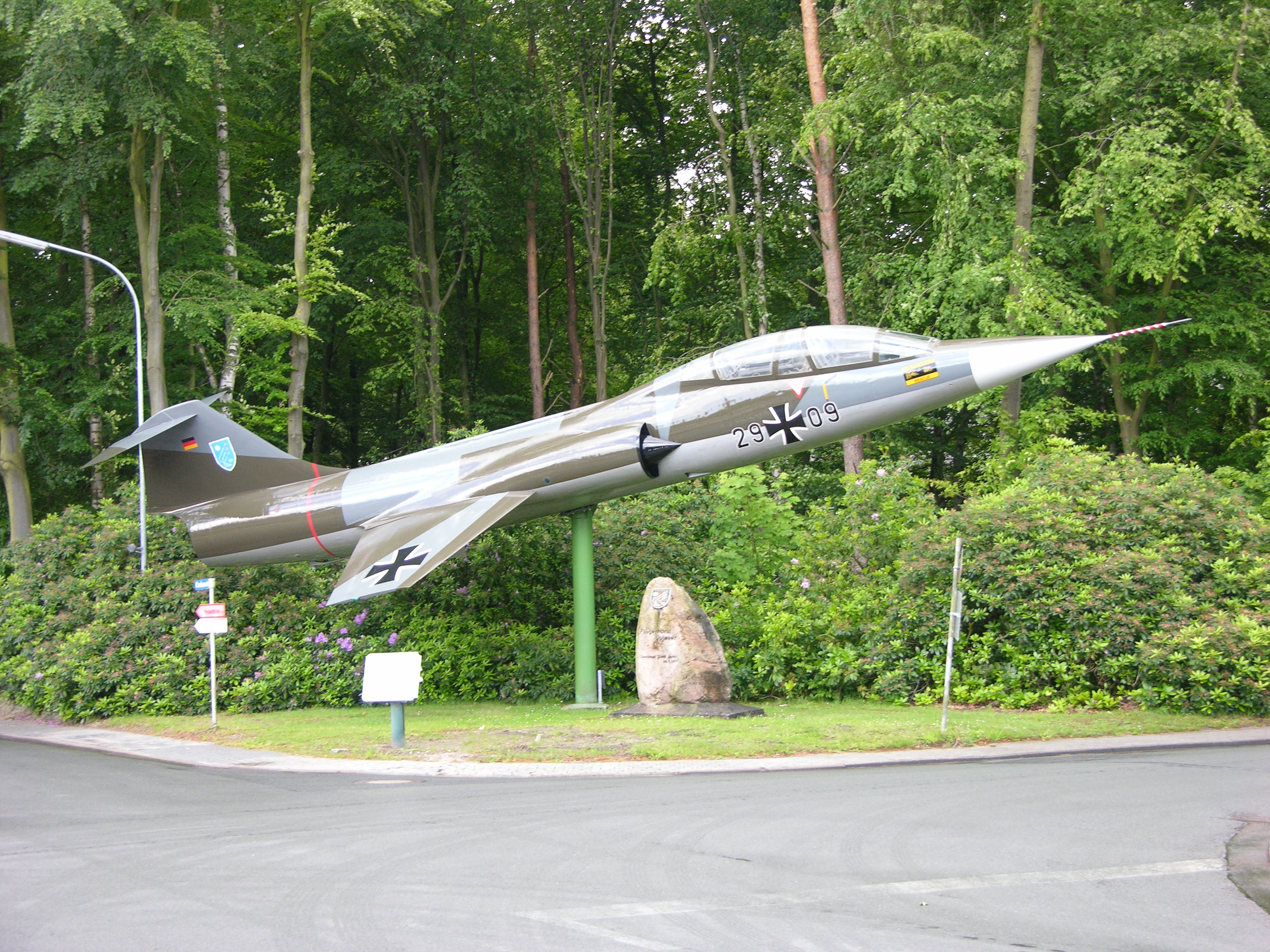 Glossily painted with few original stencils remaining but it IS a Stafighter so can't be all bad.